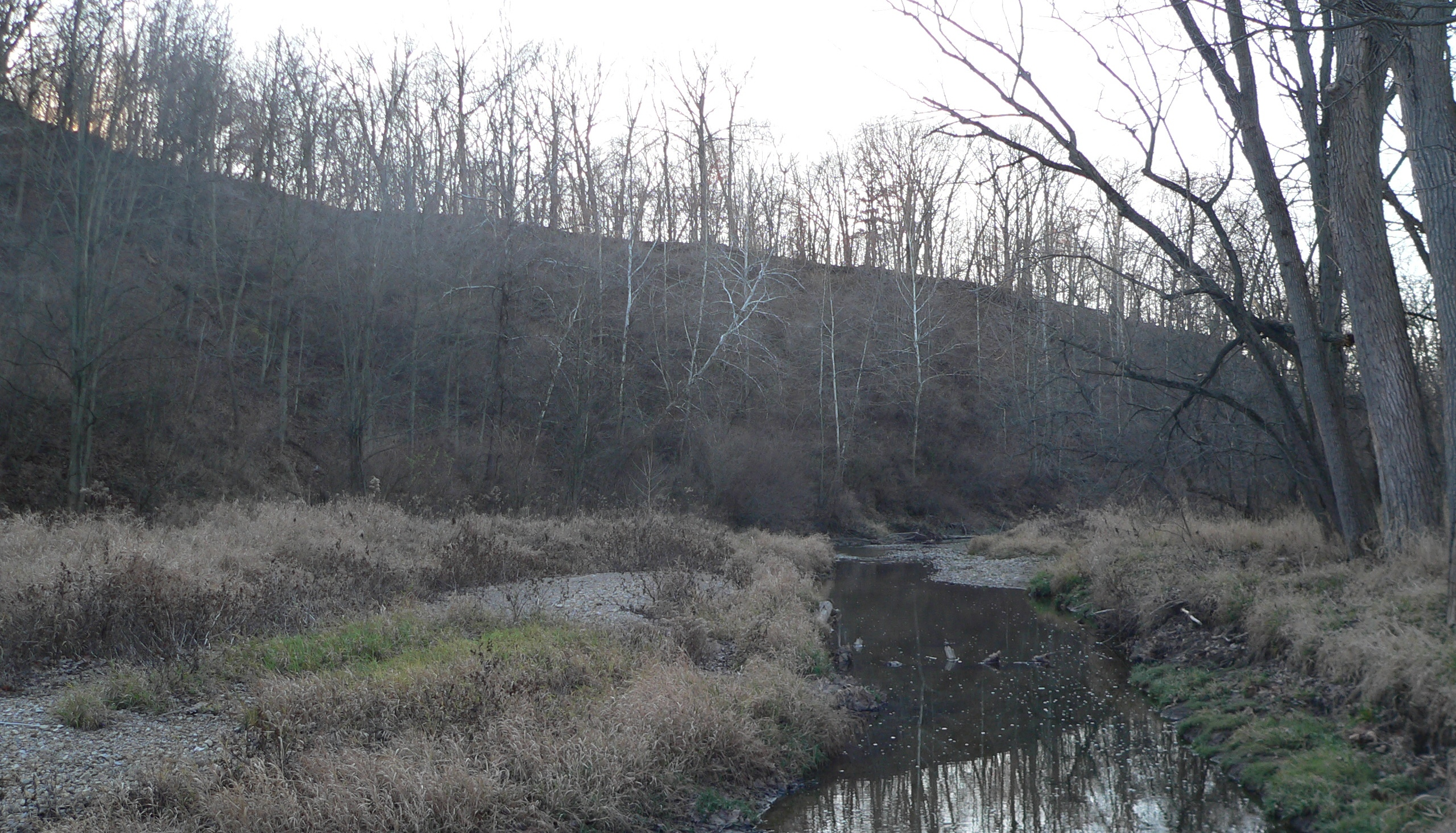 Farm Creek Section, located in Farmdale Recreation Area, in Tazewell County near East Peoria, Illinois. Second (rightmost, or westernmost) of two photos running from left to right (generally, from east to west, with the camera facing generally southward) along the slope. Farm Creek runs from left to right.